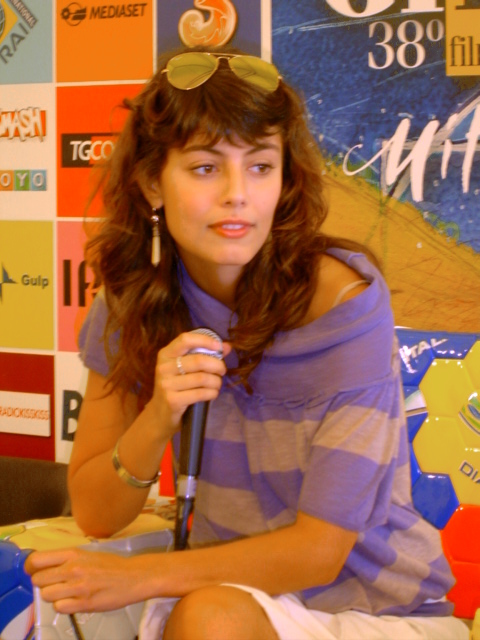 Italian actress Alessandra Mastronardi